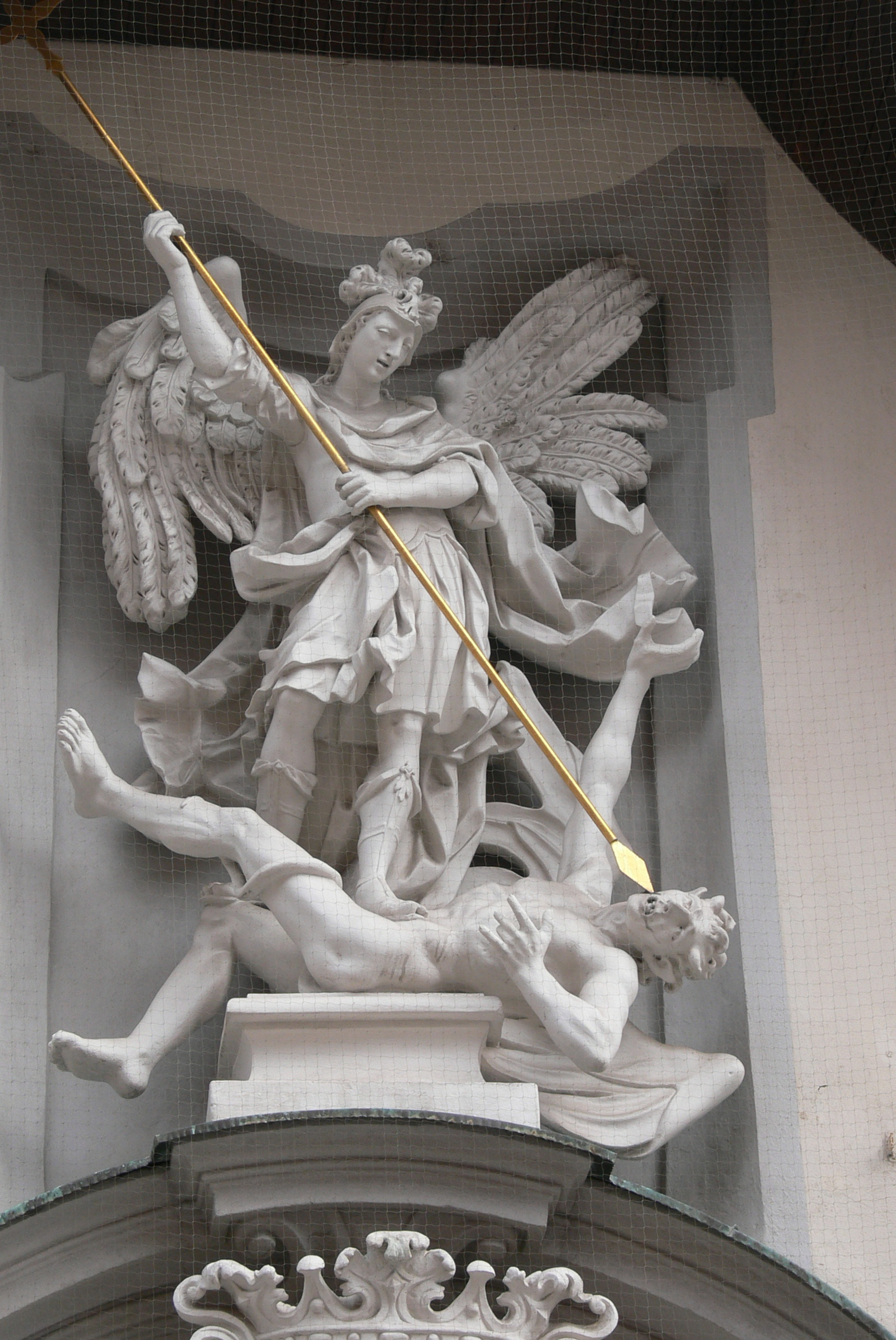 Wels (Upper Austria). City church: Portal (1732) - Statue of Saint Michael fighting Lucifer.